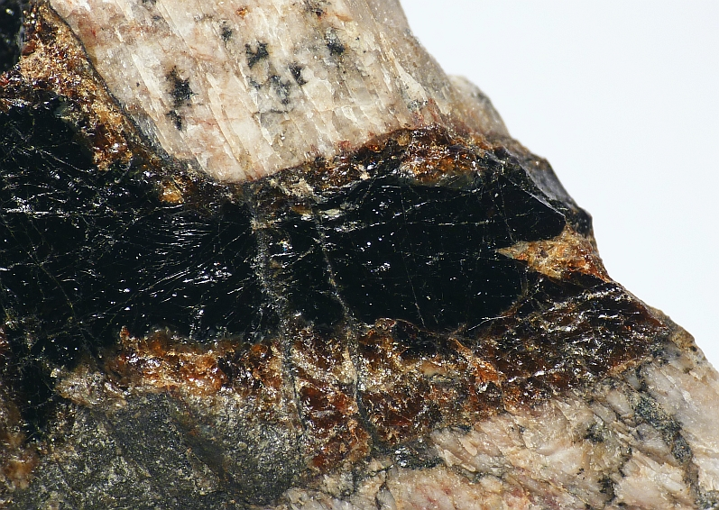 Gadolinite-(Y) Locality: Tvedestrand, Aust-Agder, Norway Field of view 2 cm. Specimen and photo Leon Hupperichs.